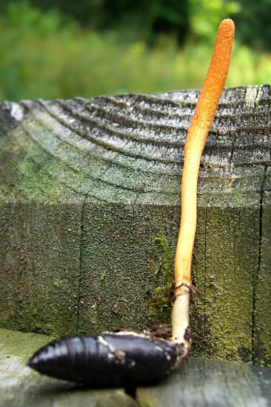 Scientific Name: Cordyceps militaris (L. ex St. Amans) Link Common Name: Trooping Cordyceps Certainty: positive (notes) Location: Southern Appalachians; Smokies; CabinCove Perfect example, complete with pupal host. This is a fascinating fungus, considered to be a real find, as it grows exclusively on buried pupae of insects! However, a day or two after a good midsummer rain in the Smokies I can almost guarantee several sightings on a casual stroll through damp hardwood forest.